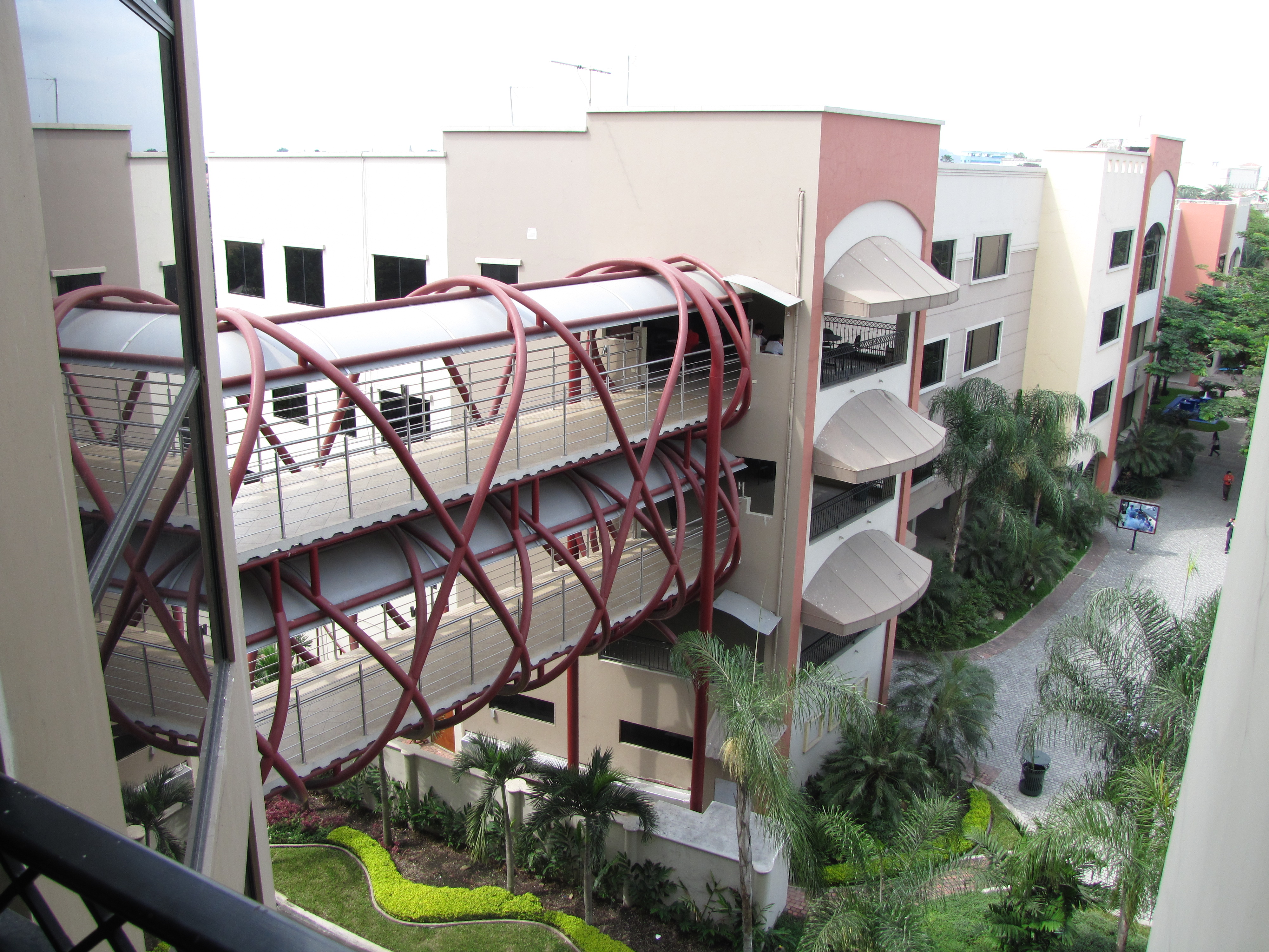 UEES Edificio E